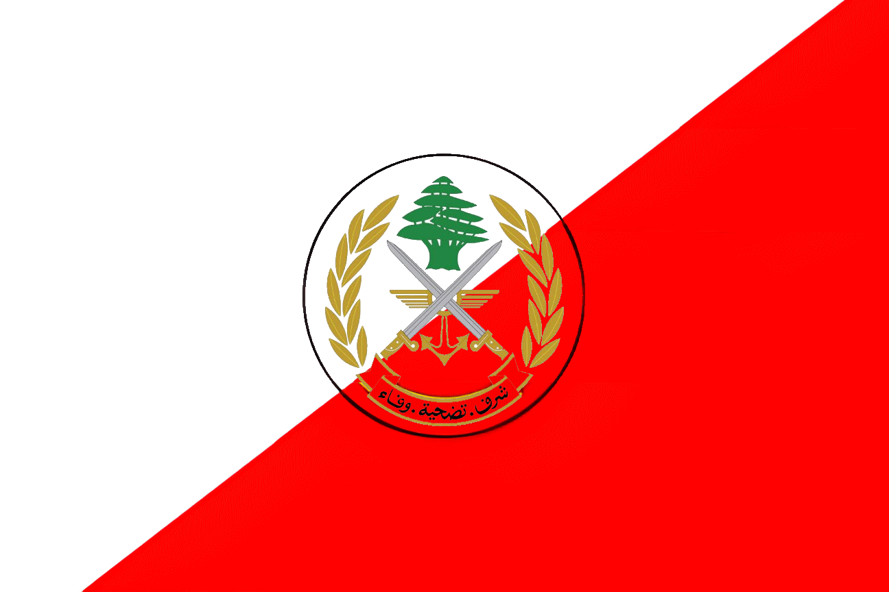 Flag of the Lebanese Armed Forces